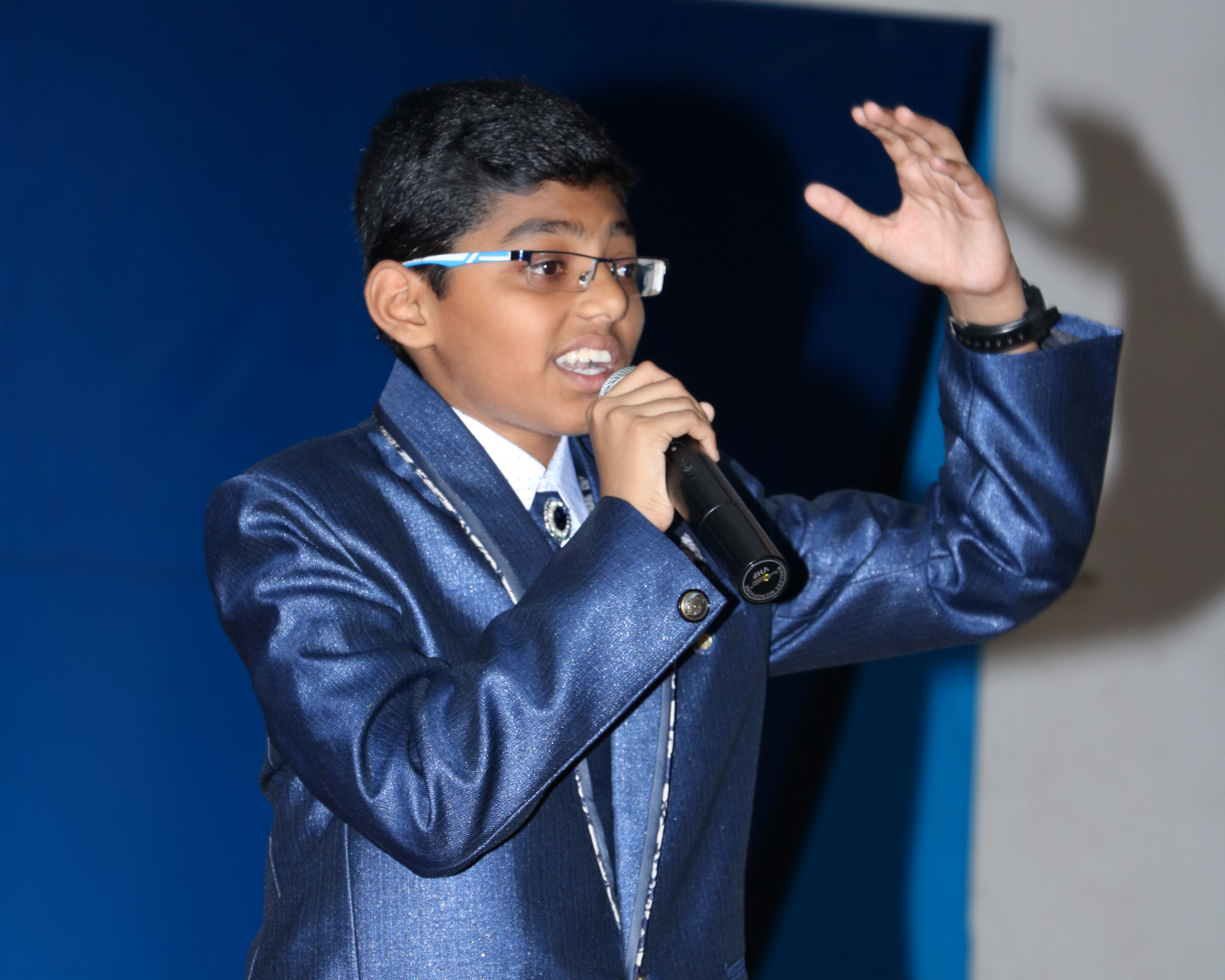 Mohamed Ashik, World Record Holder giving a public speech and addressing the public.